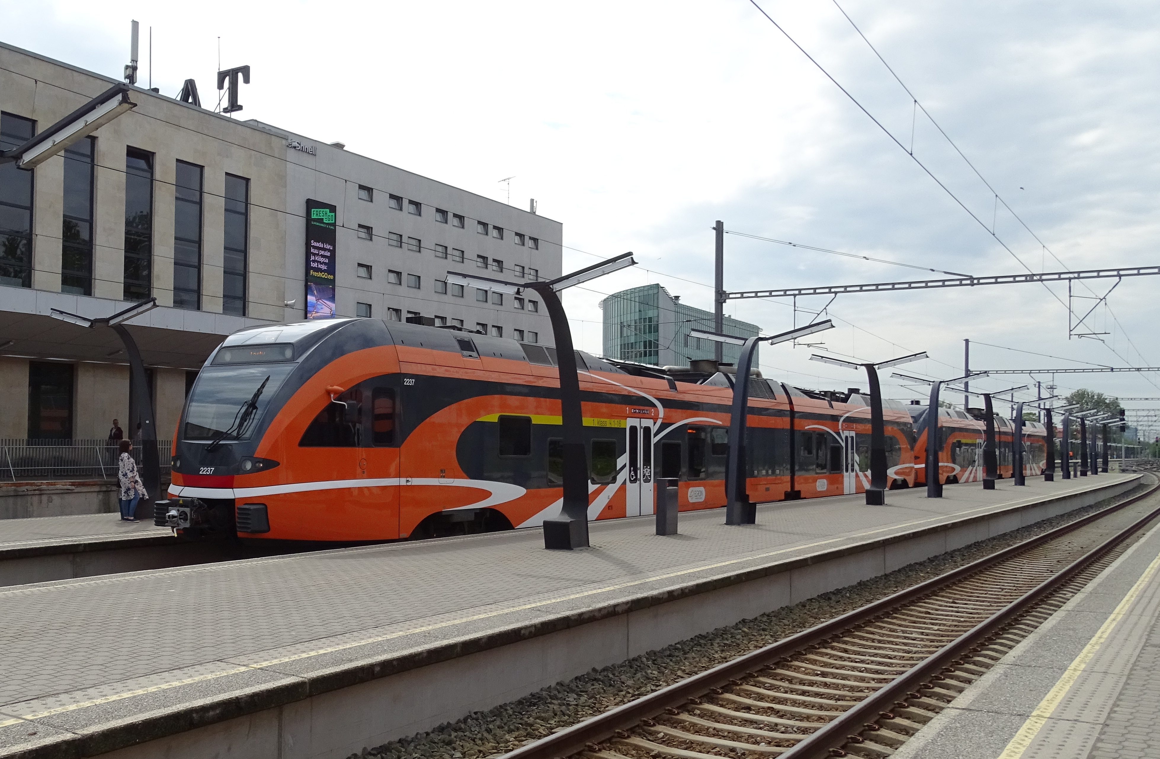 Elron Stadler FLIRT DMU 2237 in Tallinn station, Estonia.